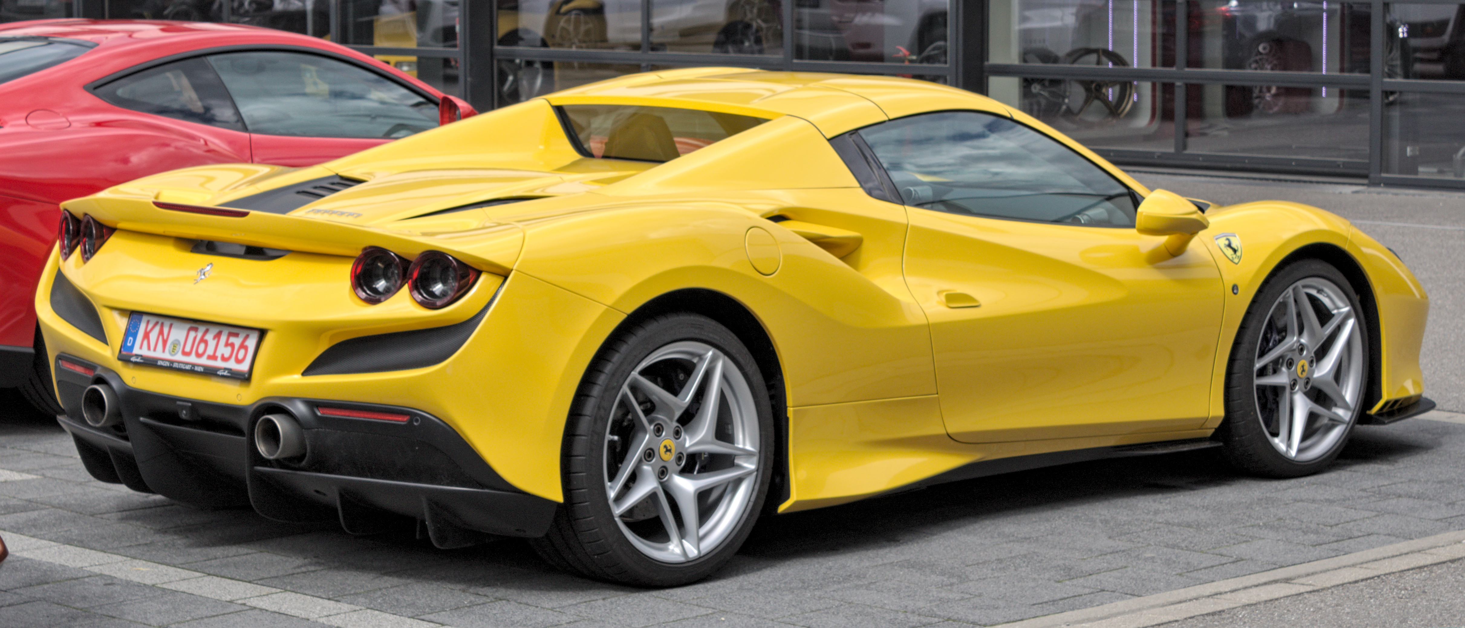 Ferrari F8 Spider in Böblingen